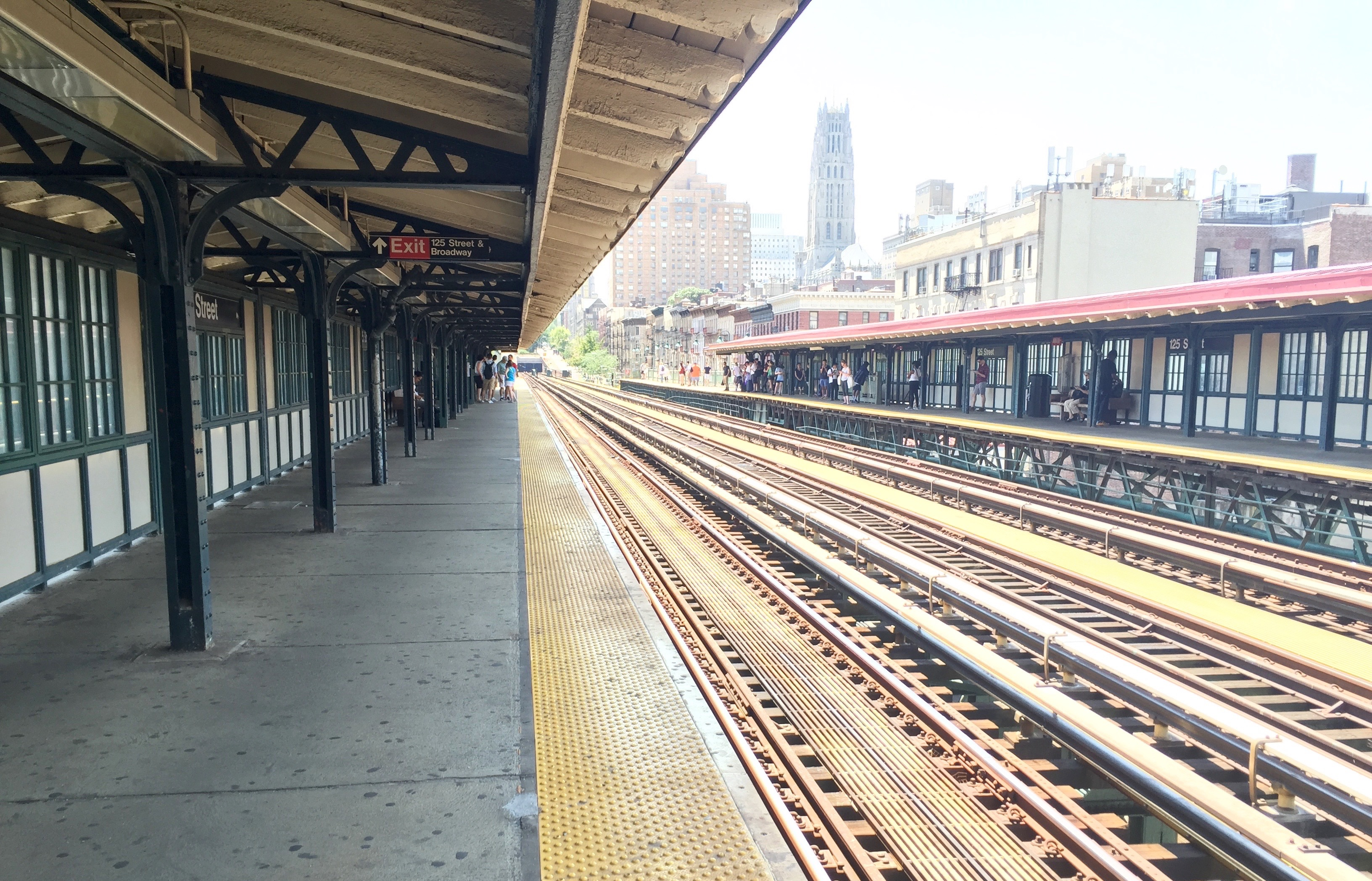 Platforms at 125th Street on the 1.